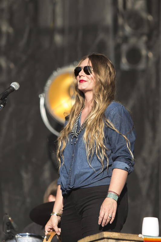 Morgane Stapelton ACL 2016